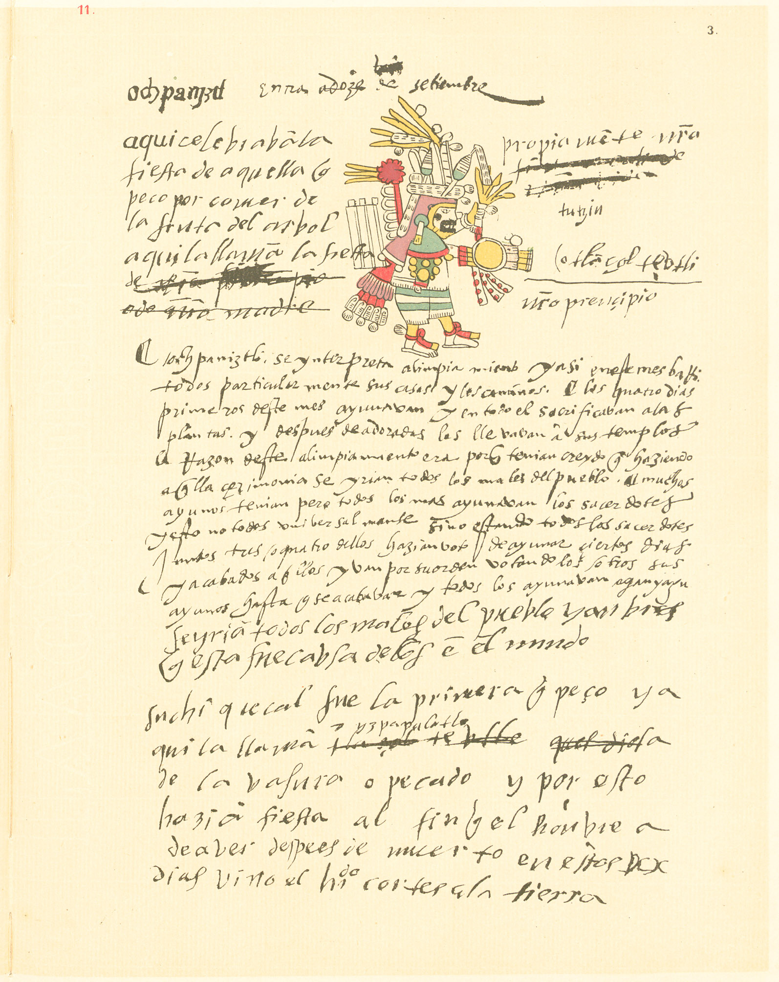 Codex Telleriano-Remensis, Folio 3r (Loubat edition, 1901).